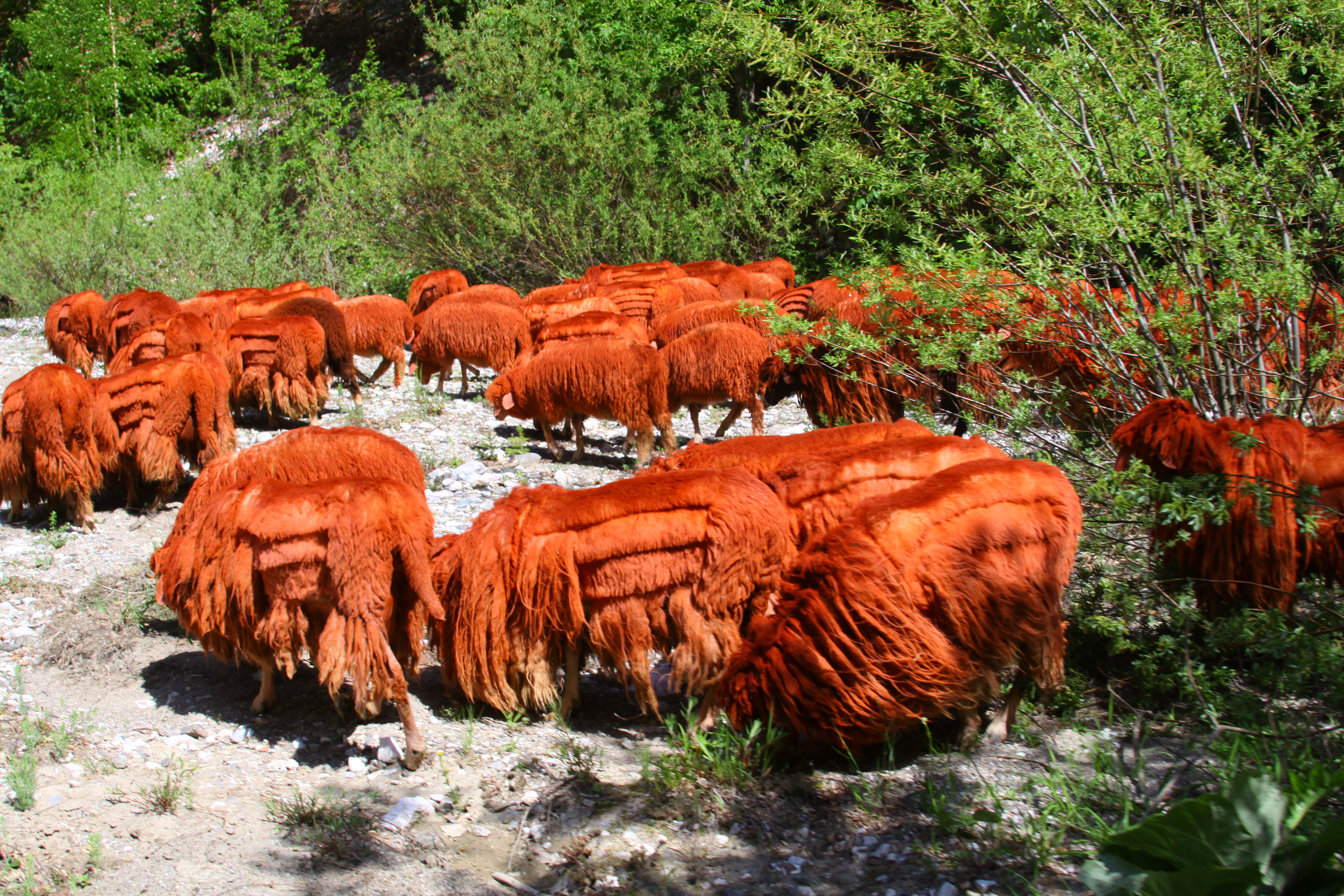 Colored sheep in Milishefc mountains in Rugova